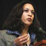 Kamala Harris during her term as District Attorney of San Francisco.